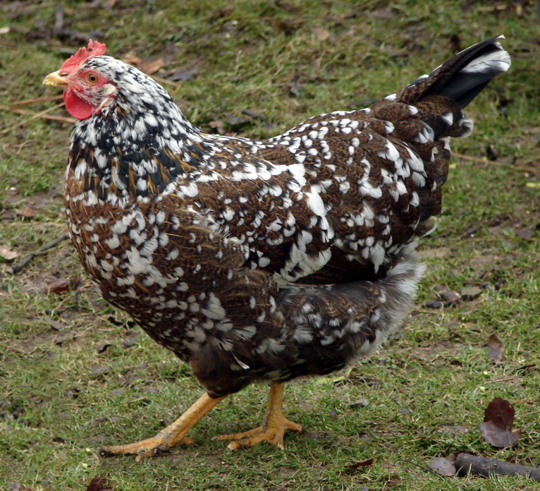 Swedish Flowerhen, Pullet